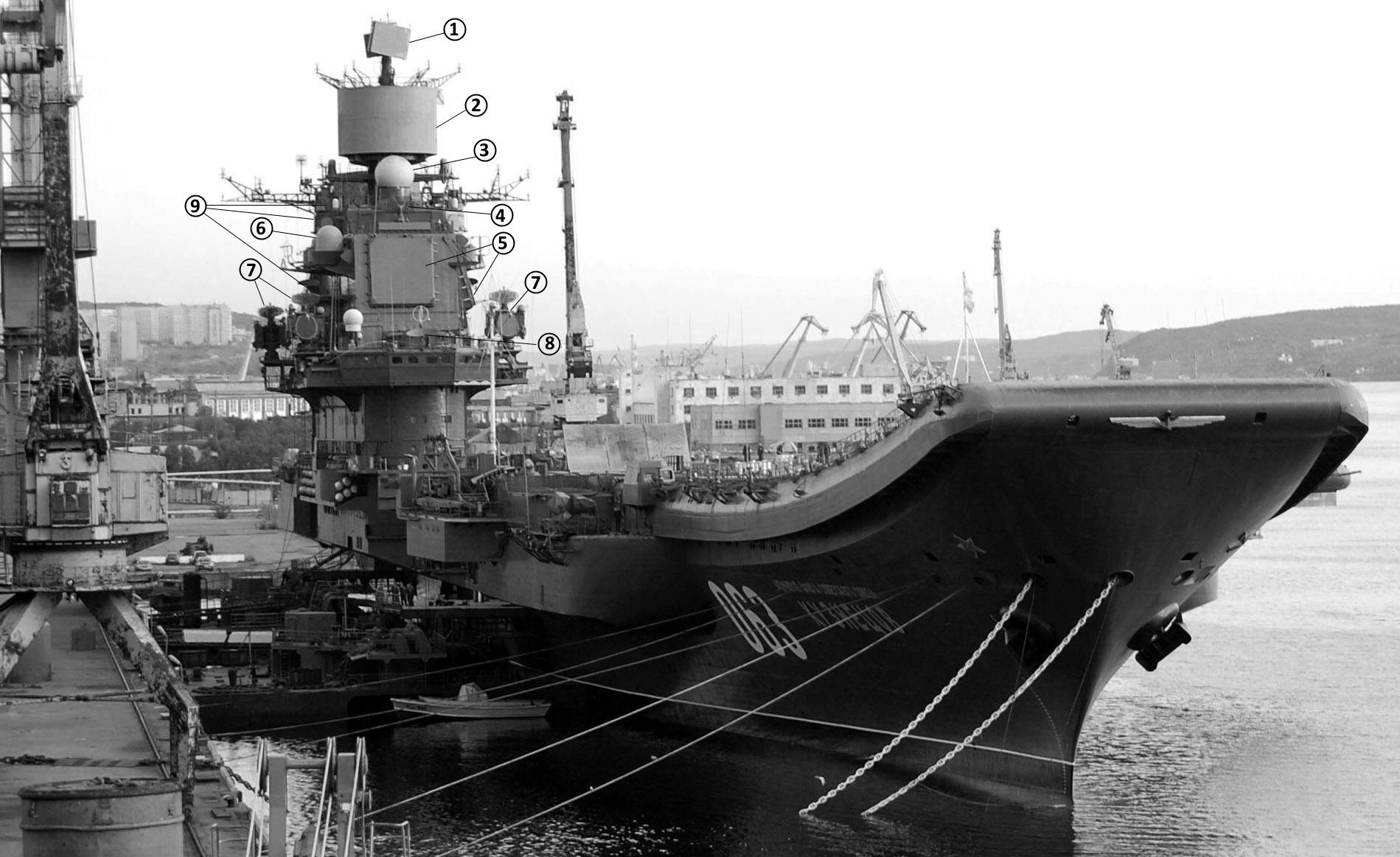 Russian aircraft carrier "Admiral Kuznetsov" with sensors and systems indicated: 1) MR-750 Fregat-MA surveillance radar; 2) Rezistor K4 aircraft homing system; 3) Kristal-BK satellite navigation and communication system (second one aft); 4) MR-350 Podkat low-level surveillance radar (second one aft); 5) Mars-Passat surveillance radar (four flat aerials on all sides); 6) Korall-BN control system for Granit missiles (second one on the port side aft); 7) Kinjal SAM control radars (four on all corners); 8) Vaygach-1143 navigation radar (second one aft); 9) Kantata-11435 ECM system.